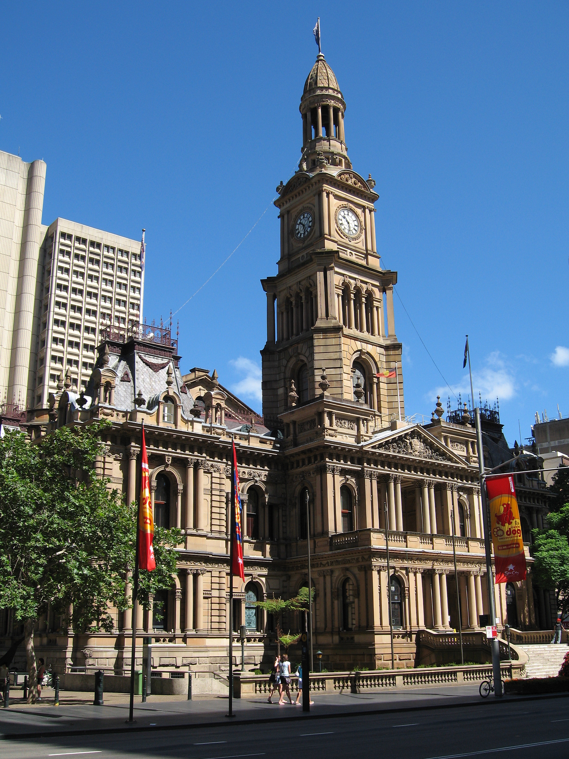 Sydney Town Hall (image has been altered by User:Sardaka by eliminating tilt, 2016-9-23)